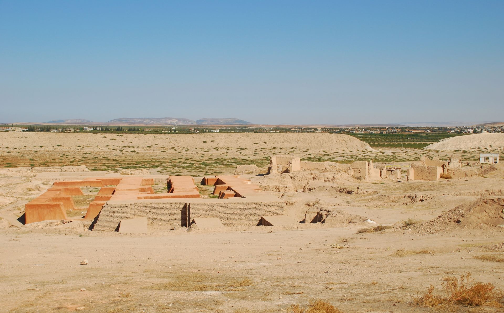 Qatna, Syria. Small palace towards north